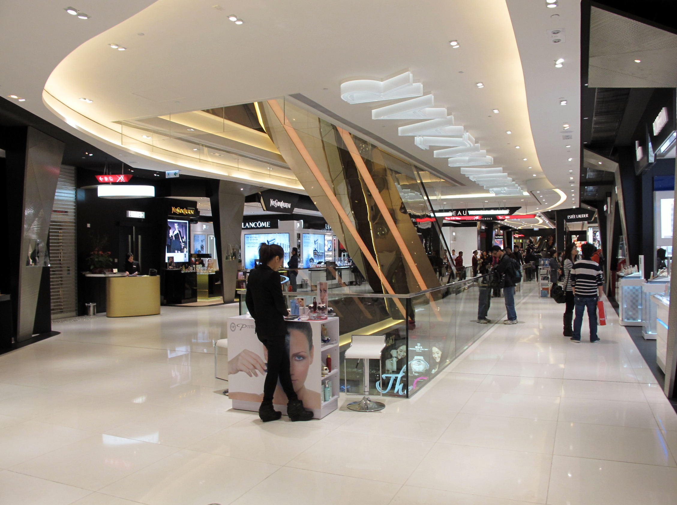 The One UG1 Beauty Bazaar